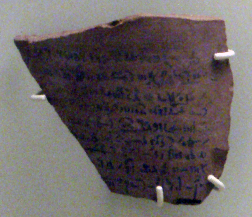 Ostracon with demotic script written on it.